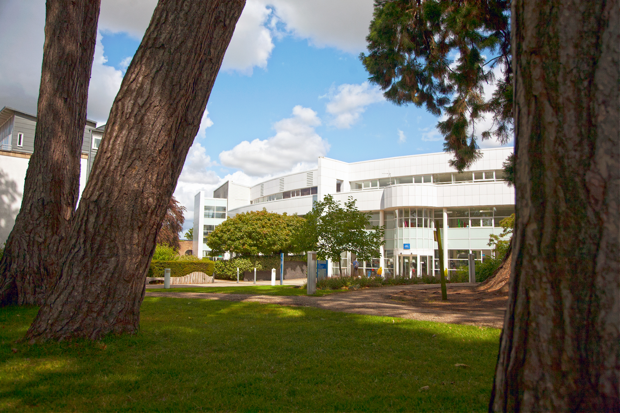 Photograph of Park Camps - Elwes reception